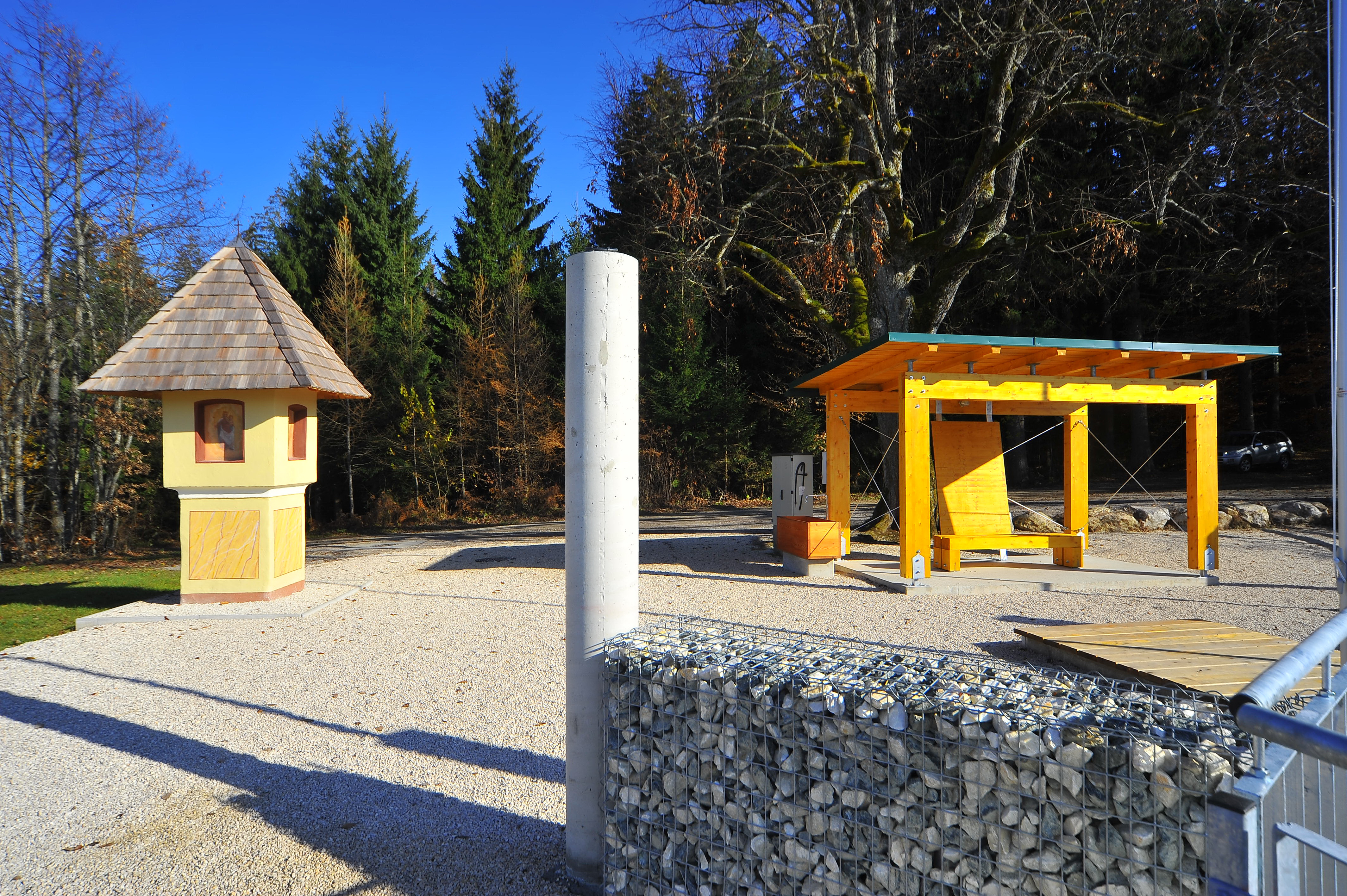 Wayside shrine and new “Kaiserhütte” (set up in 2009) on Kaiserhüttenweg, municipality Maria Rain, Klagenfurt Land, Carinthia, Austria, EU